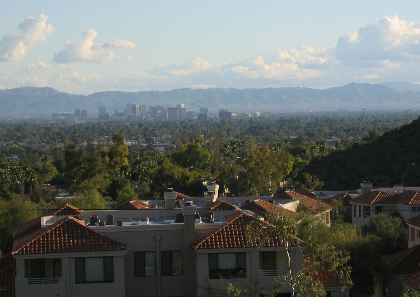 A view of Phoenix from a hill in the North Mountain Preserve.